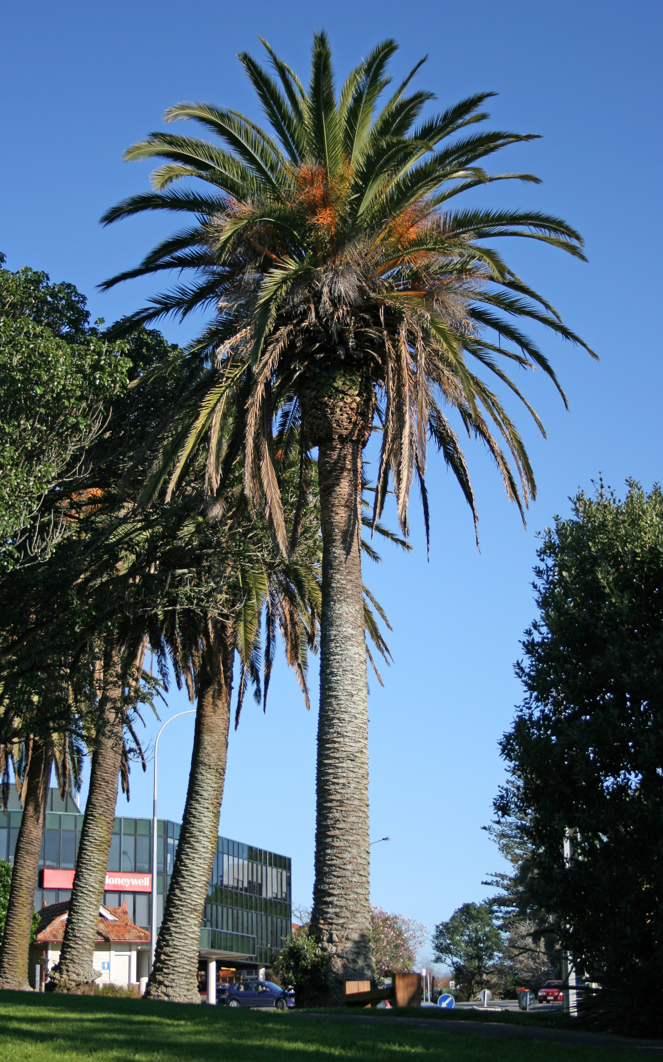 Phoenix canariensis, Canary Island Palm, in cultivation at Mt Eden, Auckland, New Zealand.